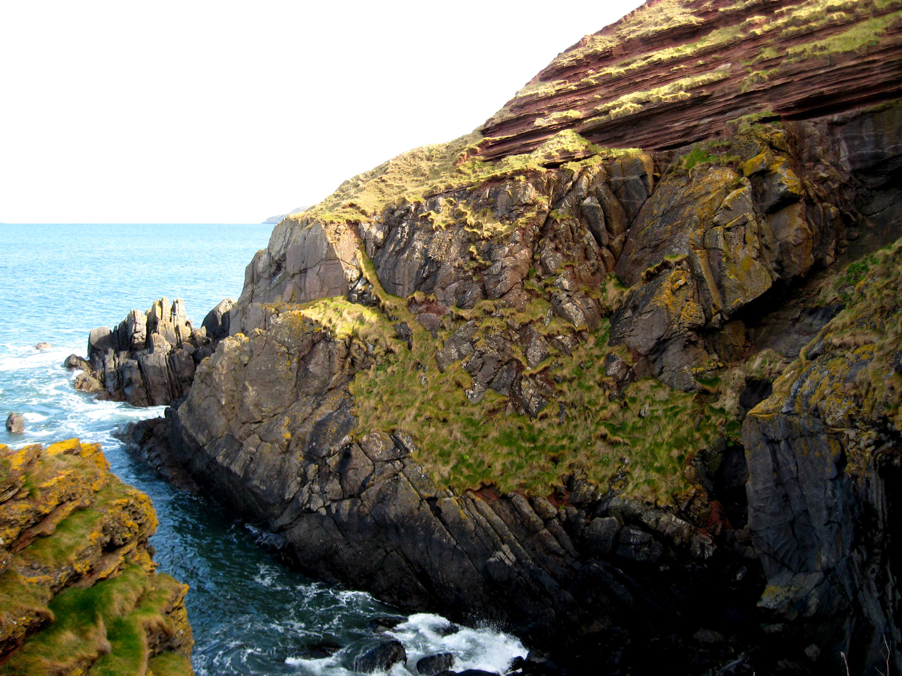 Siccar Point, cliff to southeast of point showing gently sloping Devonian Old Red Sandstone layers over older vertically bedded Silurian greywacke rocks.